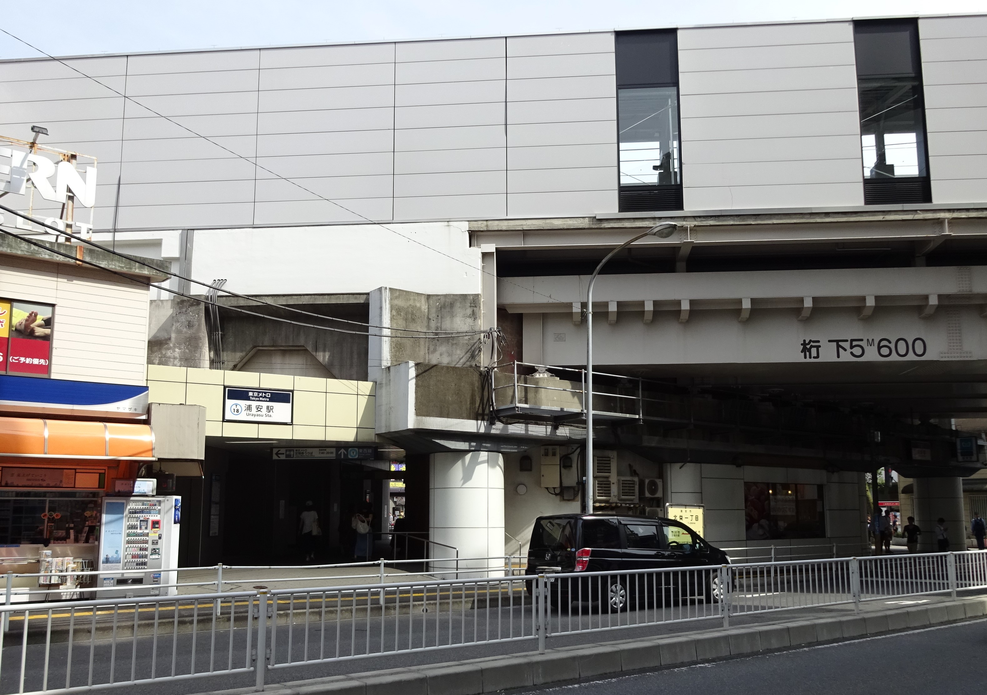 North entrance of Urayasu Station